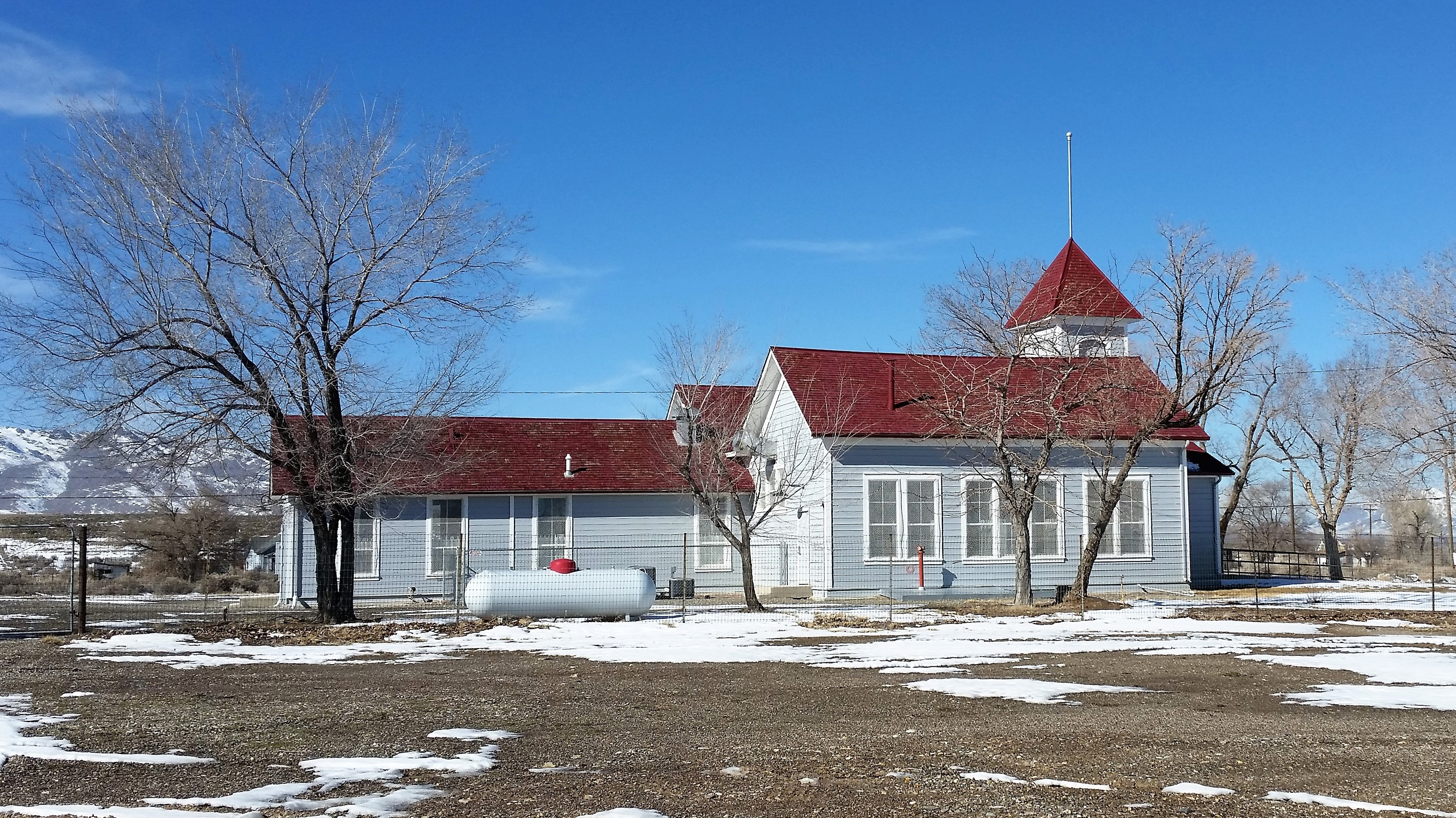 School As seen from Sibbald St